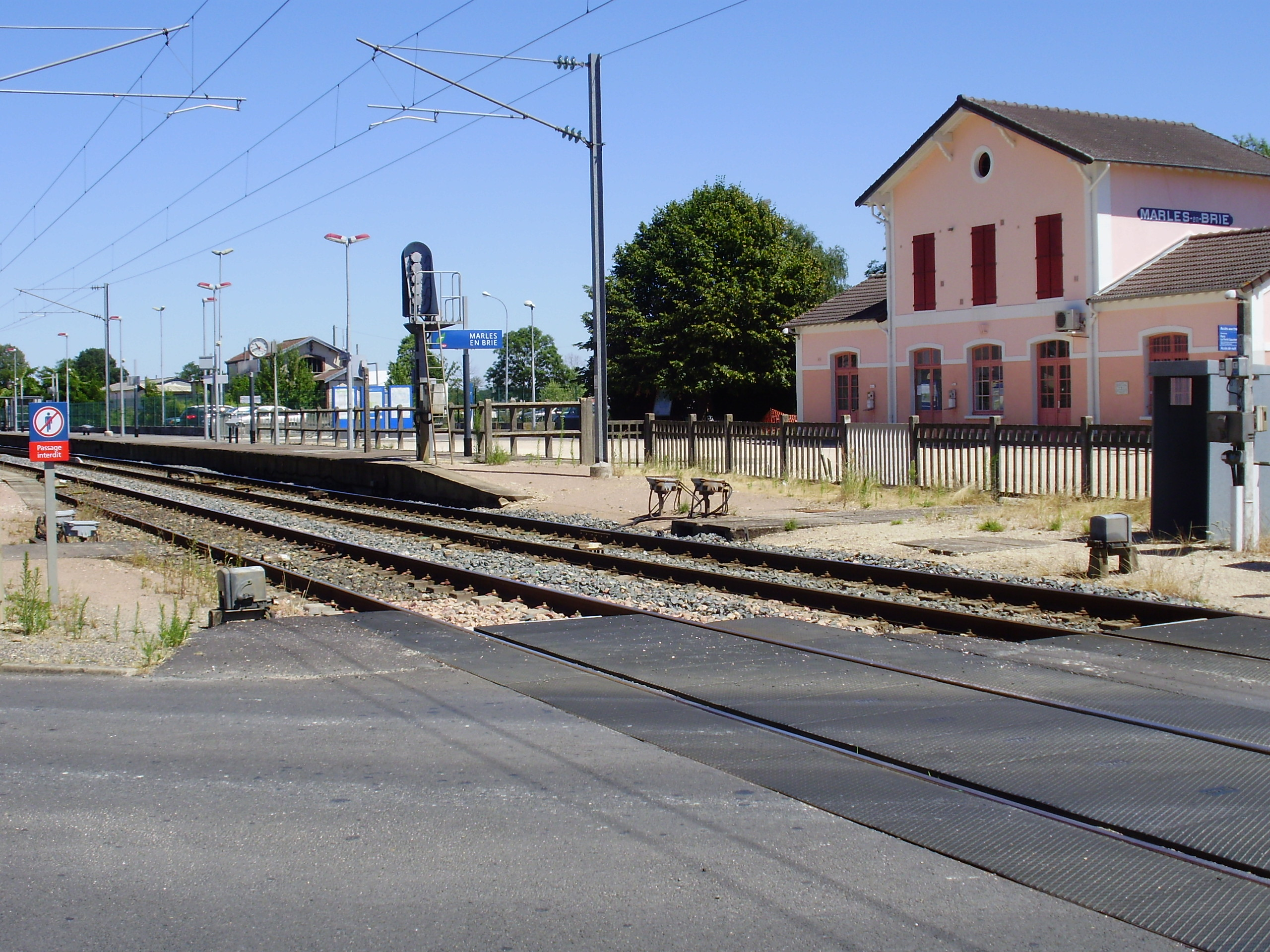 Marles-en-Brie station, in La Houssaye-en-Brie, Seine-et-Marne, France